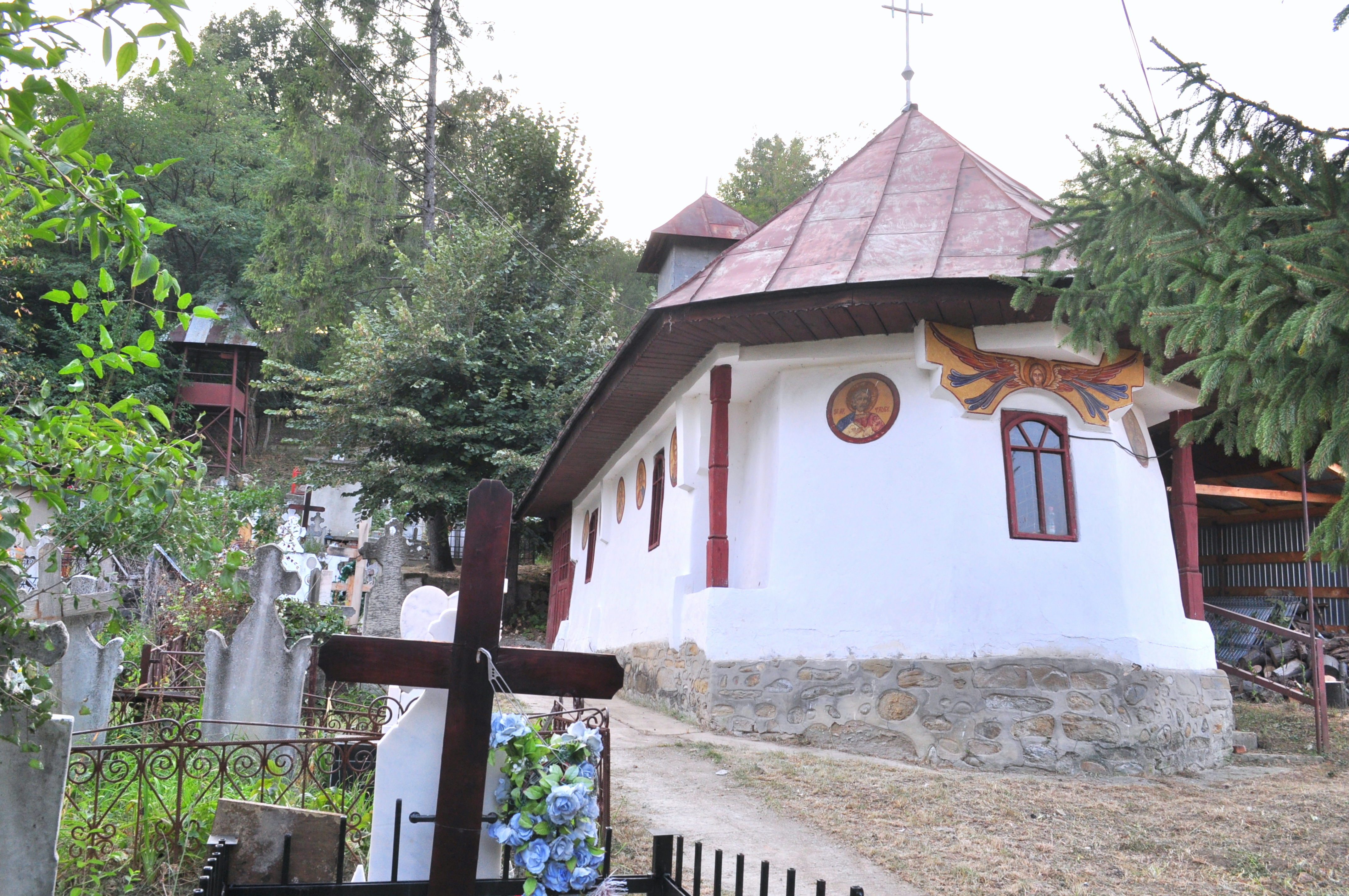 Wooden church in Maghereşti, Gorj county, Romania